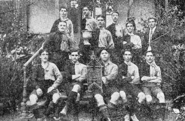 One of the first photos of Sport Club Internacional, a football team from São Paulo, defunct in 1933.